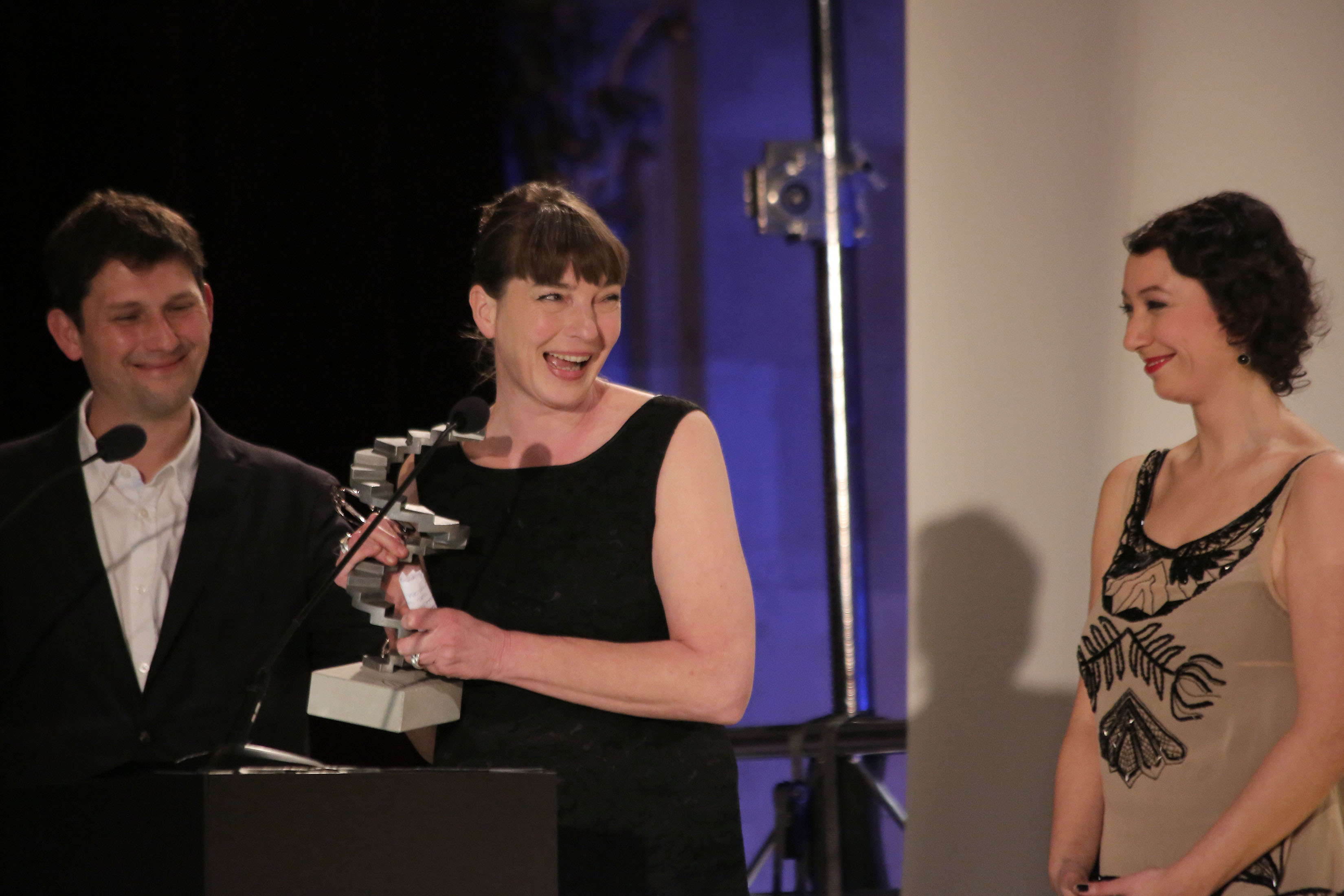 Katrin Huber with presenters Ursula Strauss and Rupert Henning at the Austrian Film Awards 2013 (Vienna).